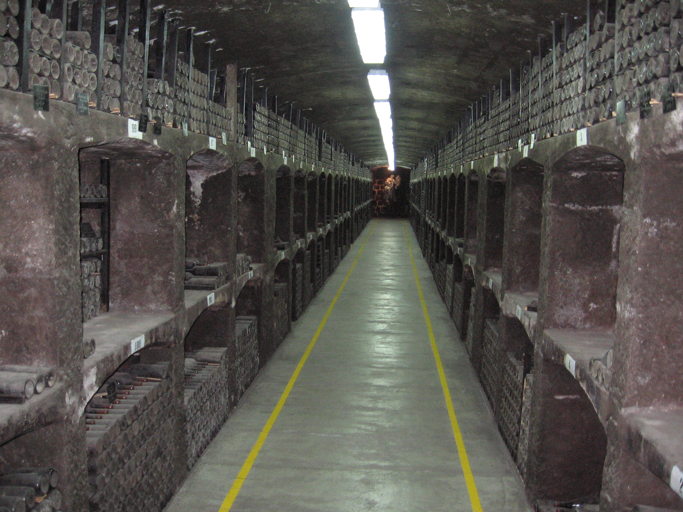 Massandra winery enoteca